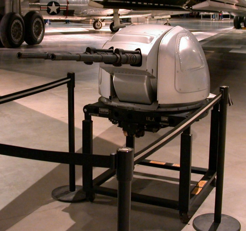 B-36 twin 20 mm cannon turret, USAF Museum, Ohio